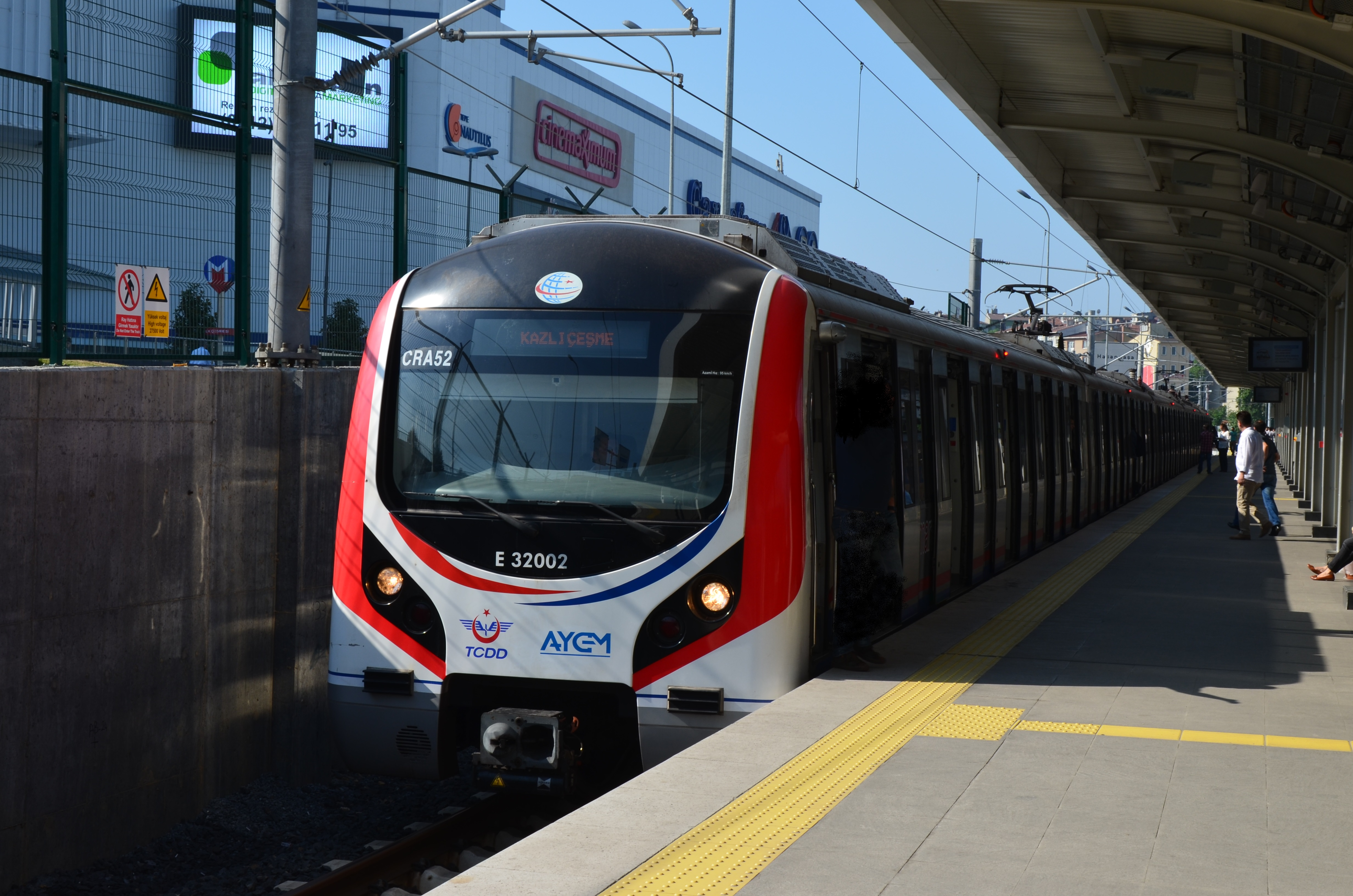 Marmaray train set at Ayrılıkçeşmesi Station in Istanbul, Turkey